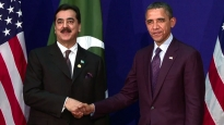 President Obama’s Bilateral Meeting with Prime Minister Gilani of Pakistan.